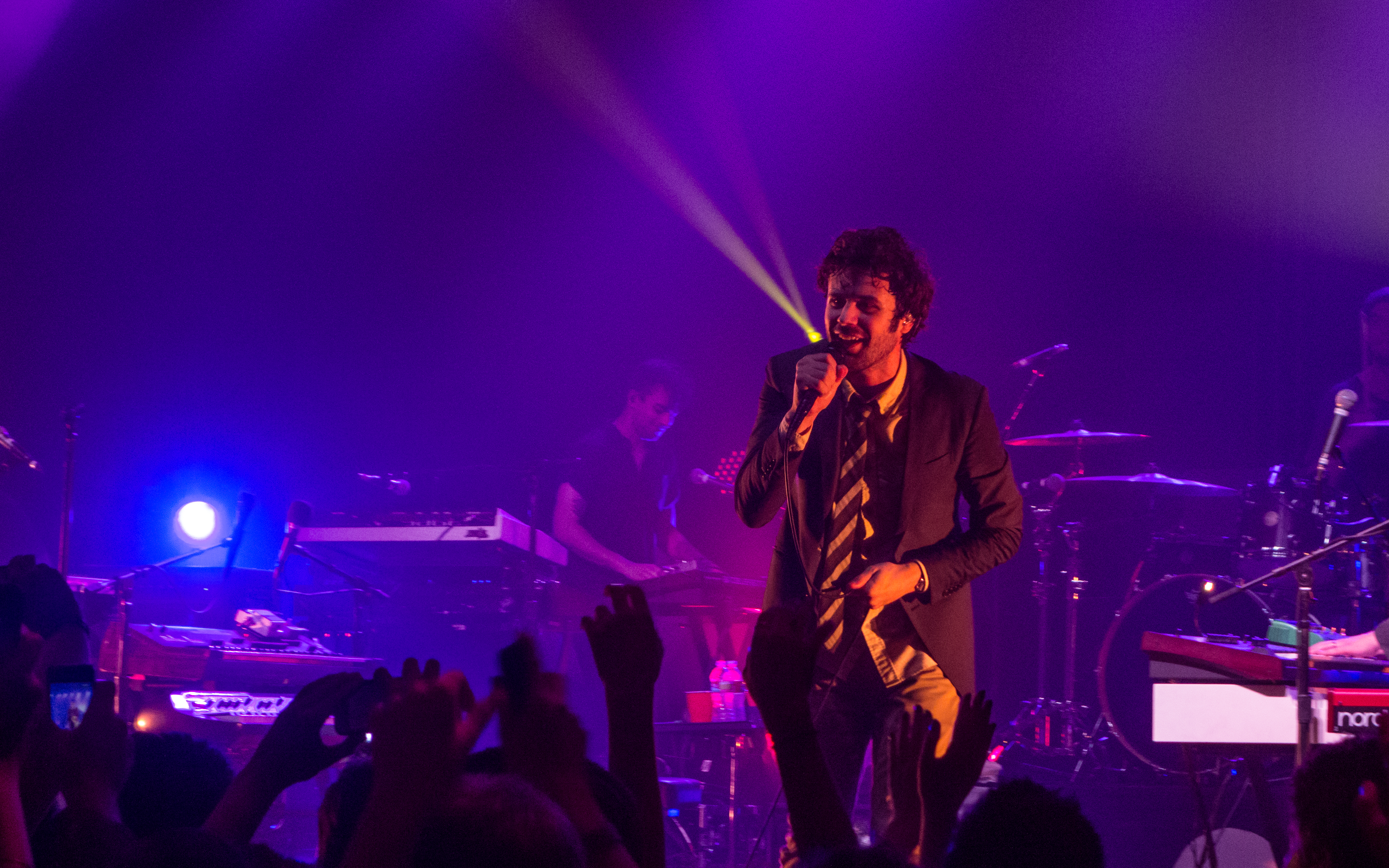 Passion Pit performing at The Complex in Salt Lake City, Utah with Matt and Kim on March 2, 2013